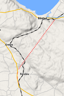 Map of the area around Hallandsåstunneln in Sweden. The dotted red line is the tunnel and the dashed red line is the connecting railway. This map may be incomplete, and may contain errors. Don't rely solely on it for navigation.